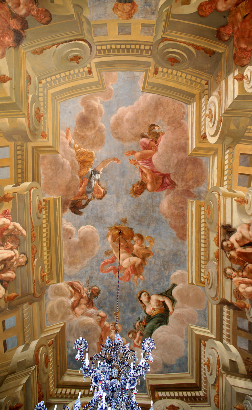 Václav Jindřich Nosecký and Michael Václav Halbax, Olympian gods (Zeus, Juno, Poseidon, Demeter), Zákupy Castle